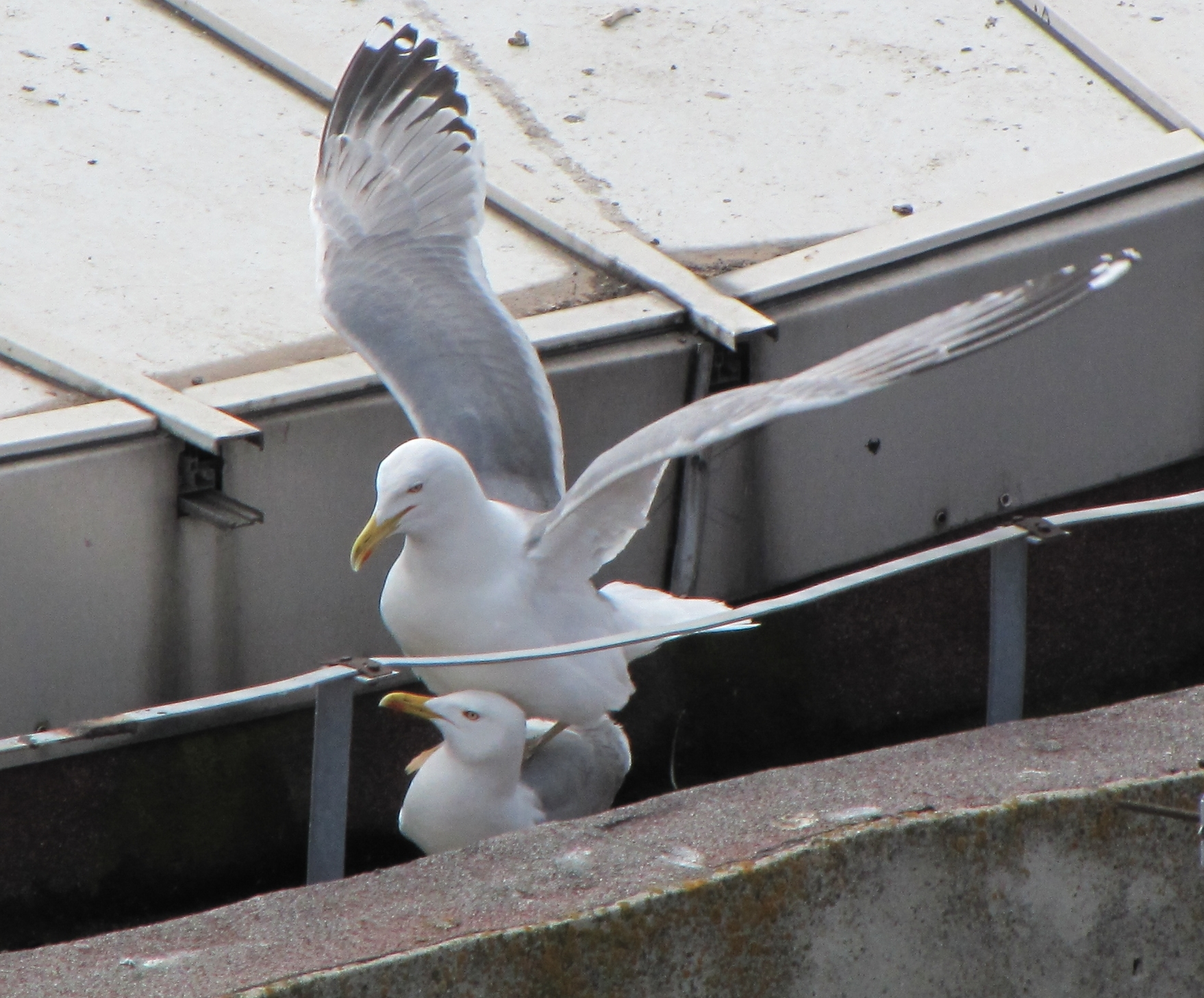 Yellow-legged Gulls mating on roof-top, Constanta, Romania; 2010 May 11.